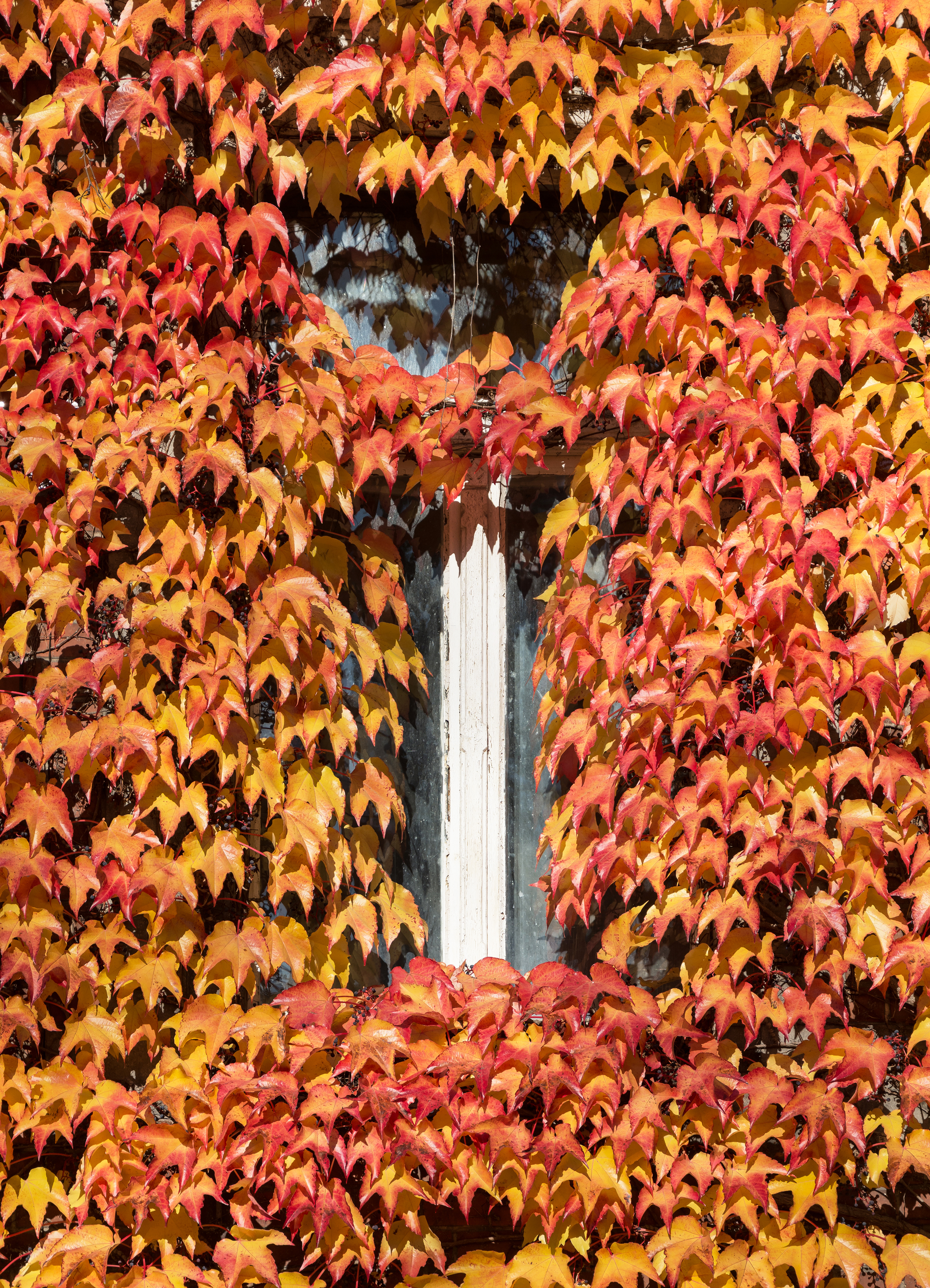 Boston ivy (Parthenocissus tricuspidata)